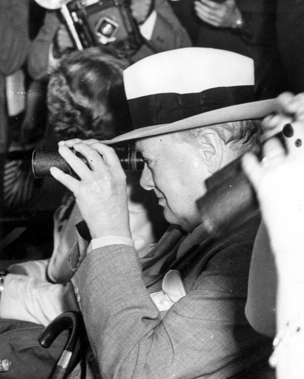 Winston Churchill at Hialeah Park horse race, Hialeah, Florida